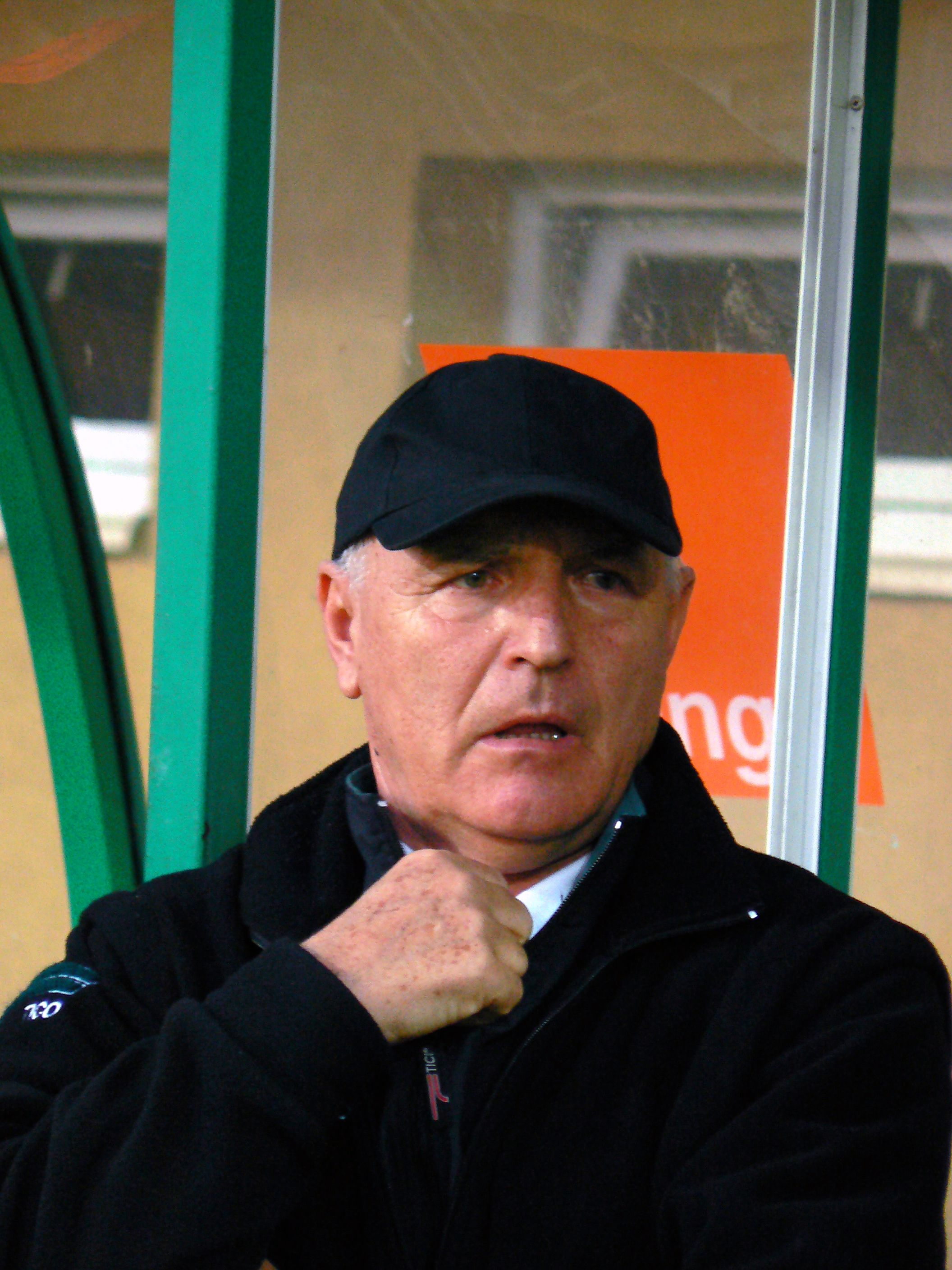 Coach GKS Bełchatów - Orest Lenczyk